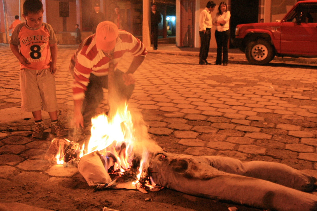 Children stand over a burning effigy in Vilcabamba, Ecuador, on New Year's Day 2008